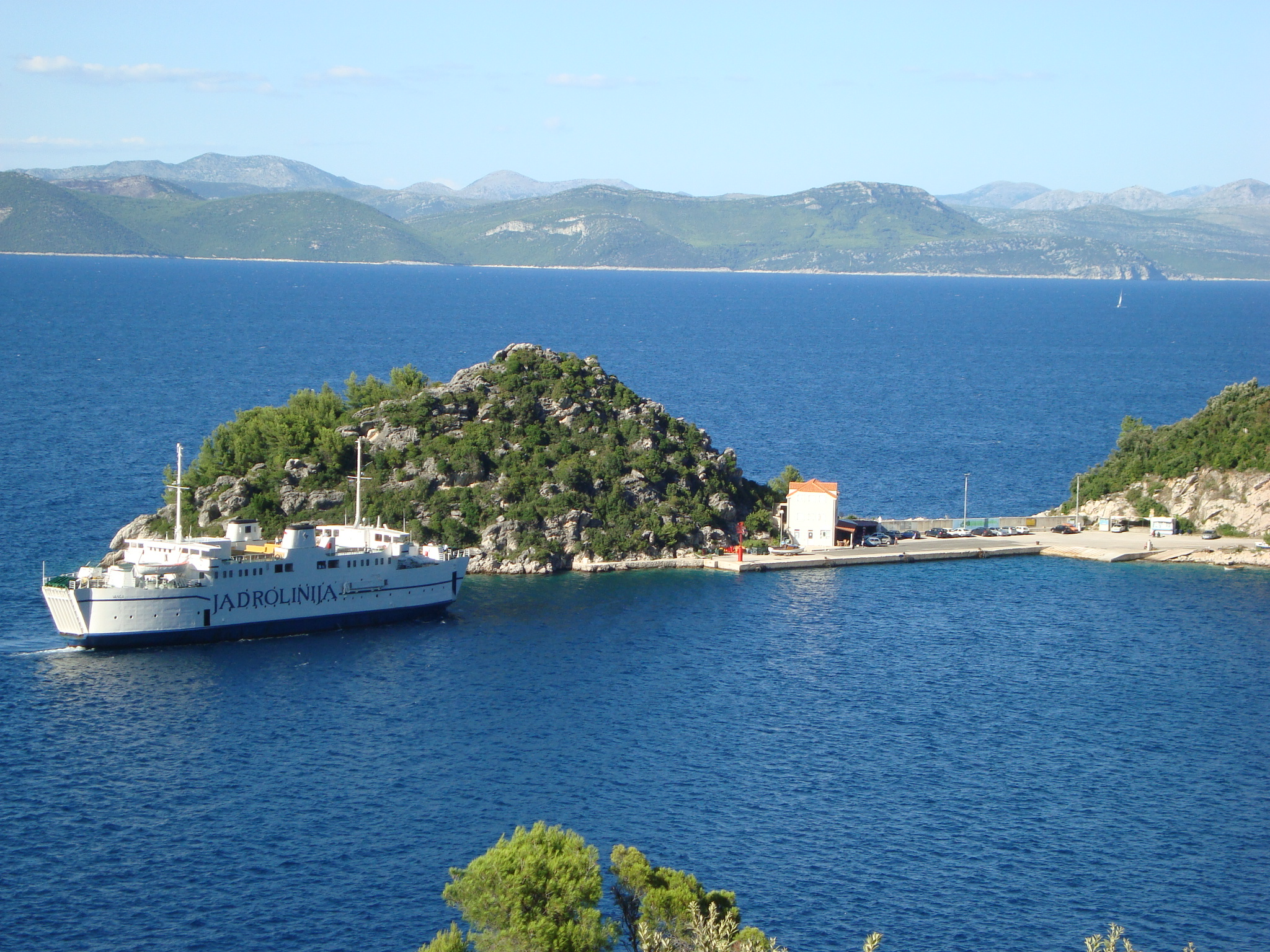 Port of Sobra